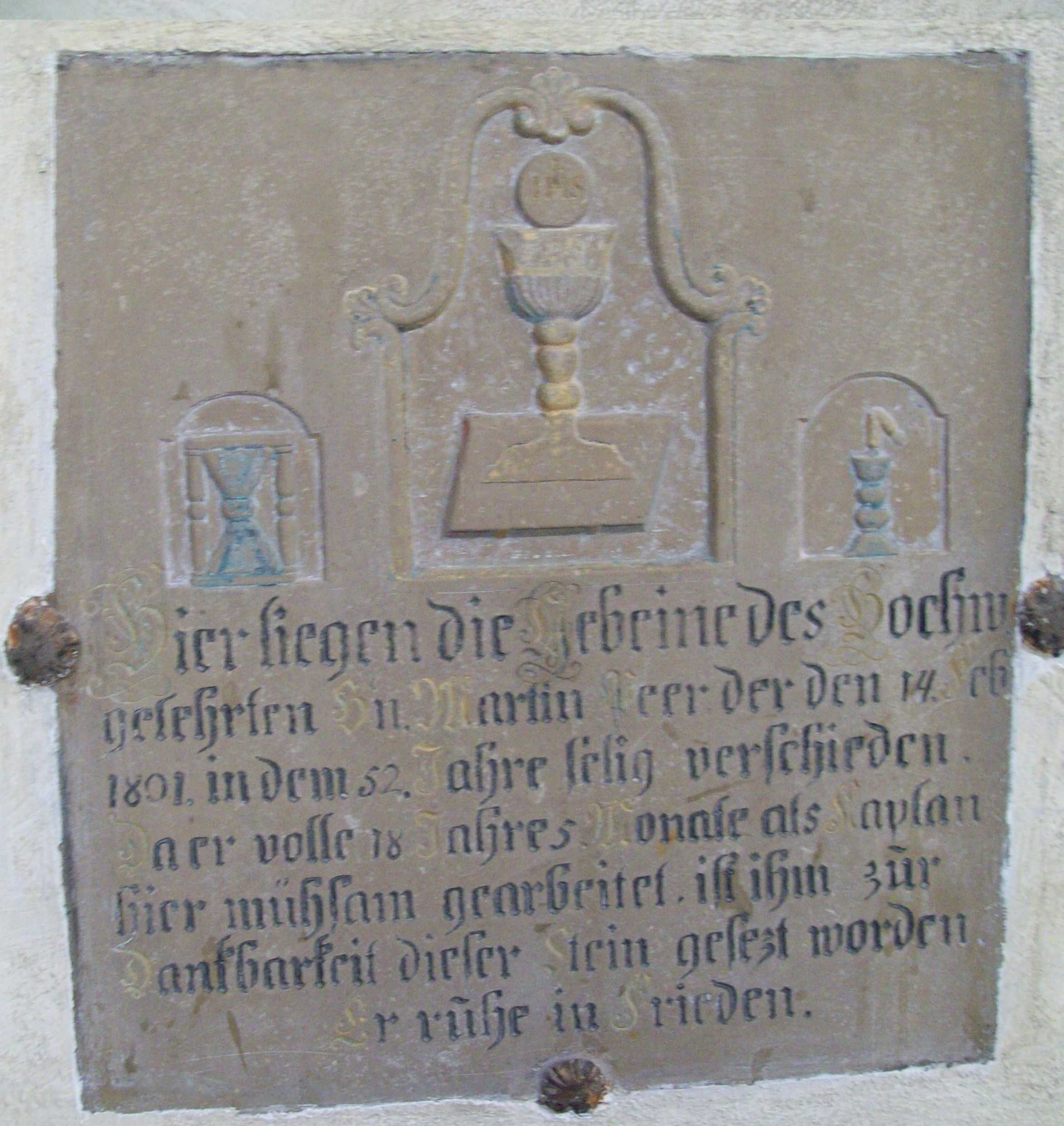 Epitaph Martin Peer, * 1749, † 14. Februar 1801 in Grainet, Kooperator, Pfarrkirche Hl. Dreifaltigkeit, Grainet Source=own work of Ekpah